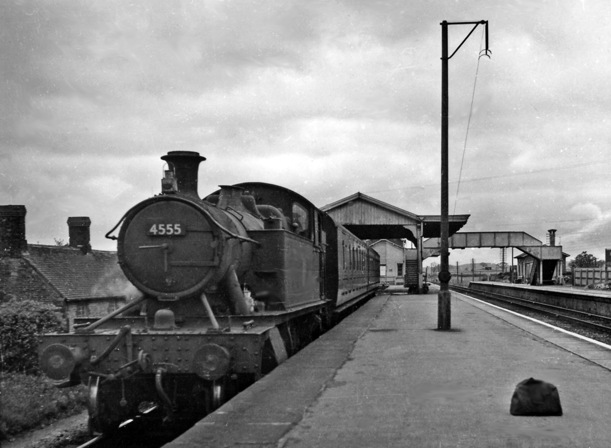 Witham (Somerset) Station, with a train for Yatton. View eastward, towards Westbury, Swindon, reading and London: ex-GW West of England main lines and junction for Wells and Yatton. The train is in the Down Bay, with Collett '4500' 2-6-2T No. 4555 (built 9/24).